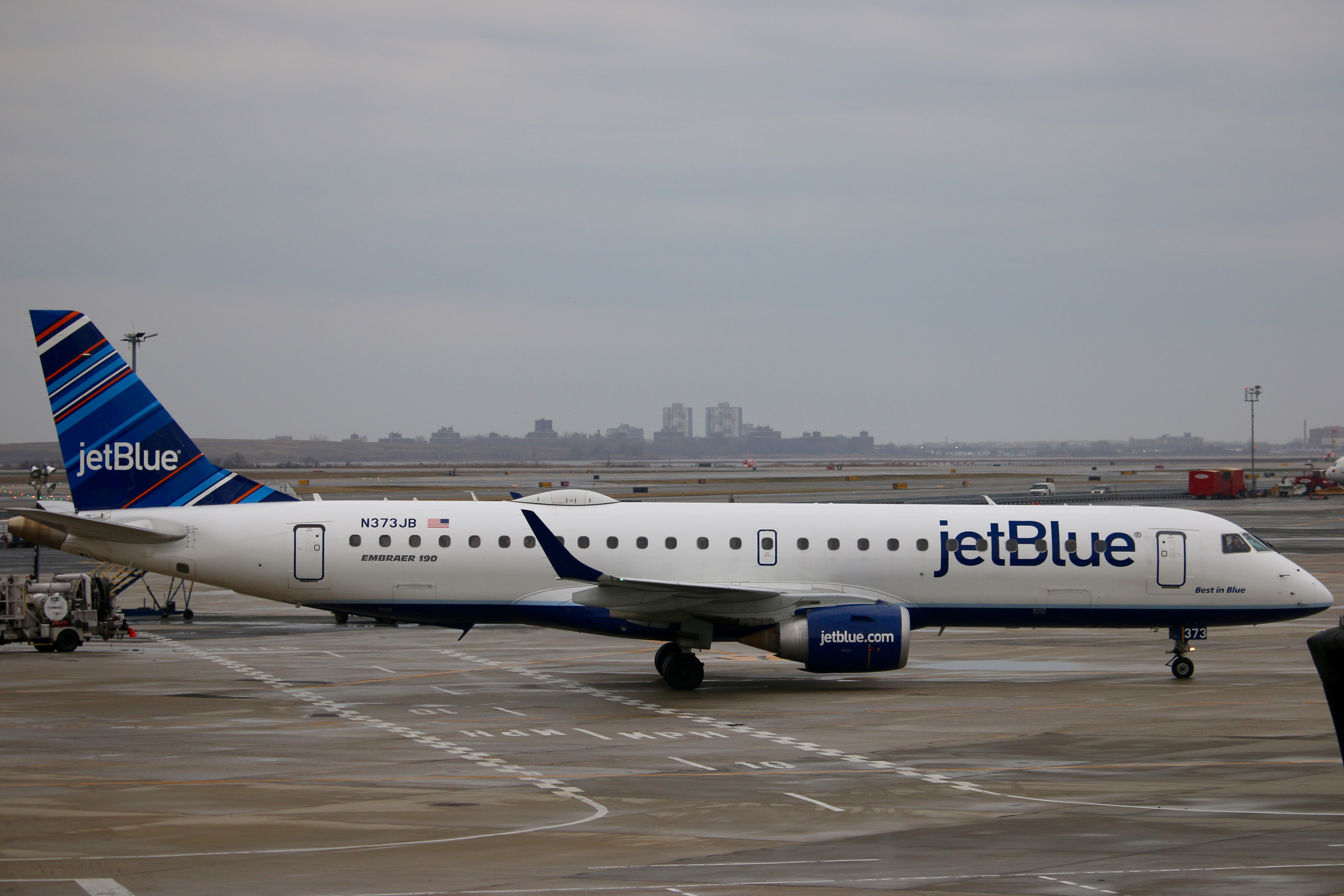 A JetBlue E190AR taxiing at New York JFK Airport